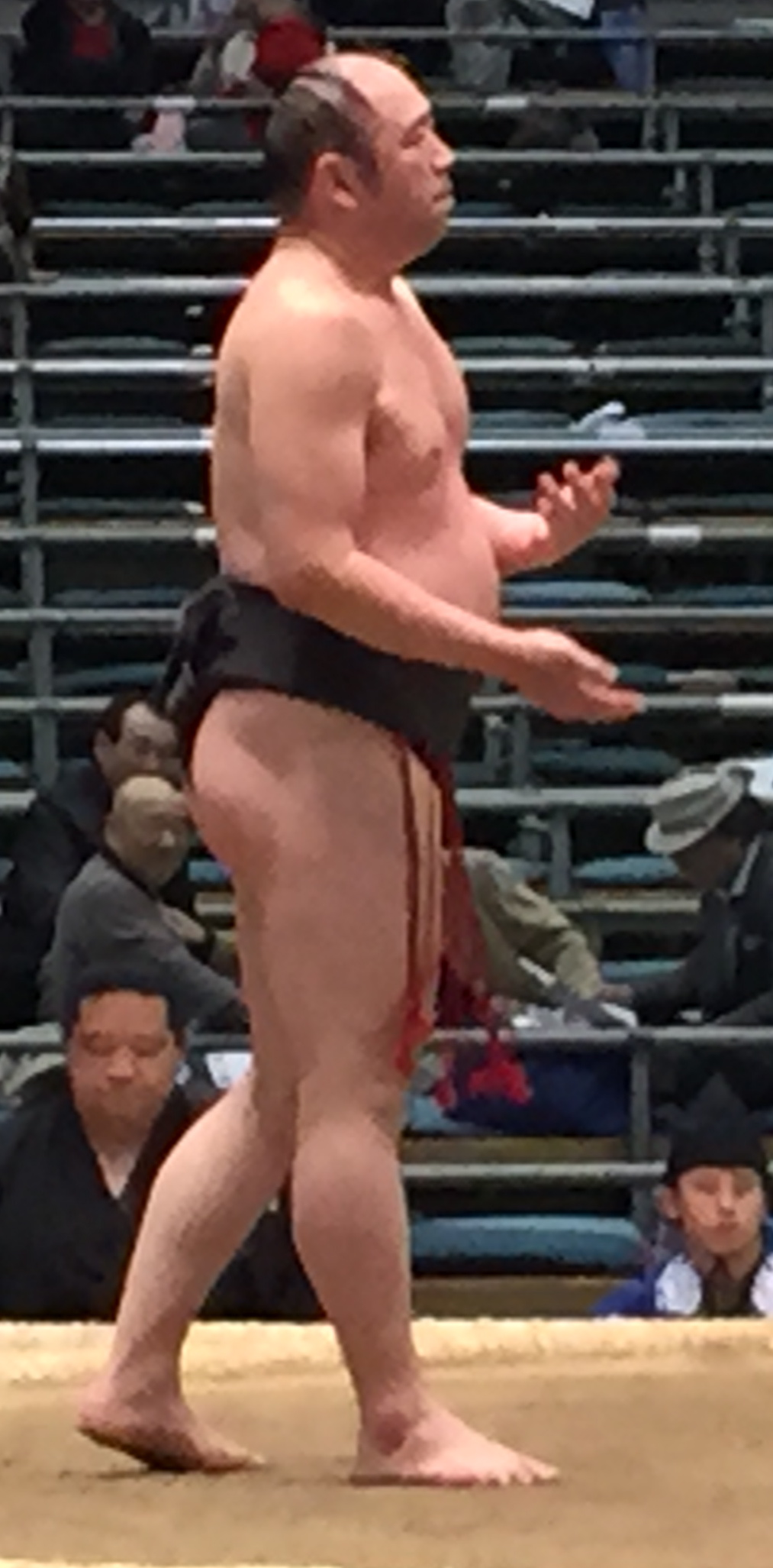 Taken at Osaka tournament 2015